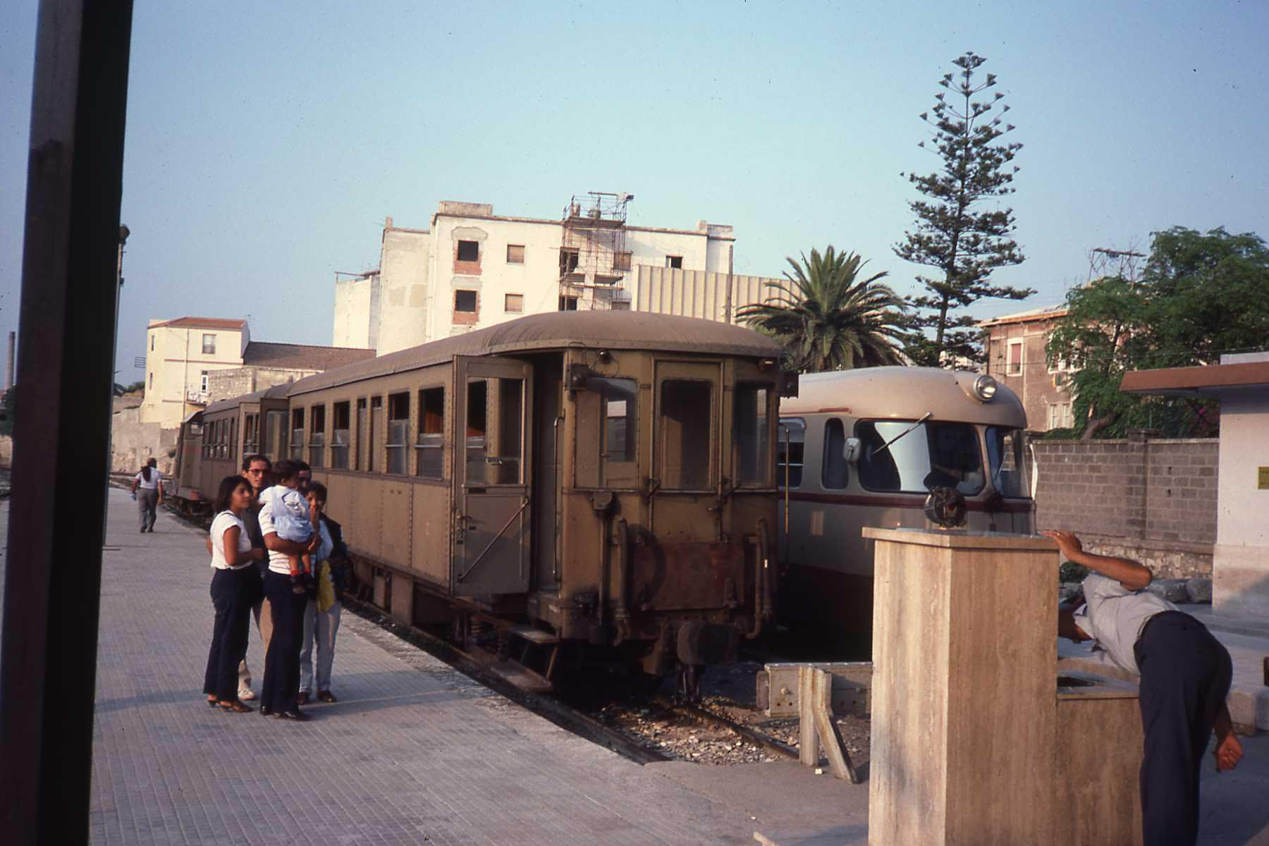 Side platforms for FsD trains in Sassari station.